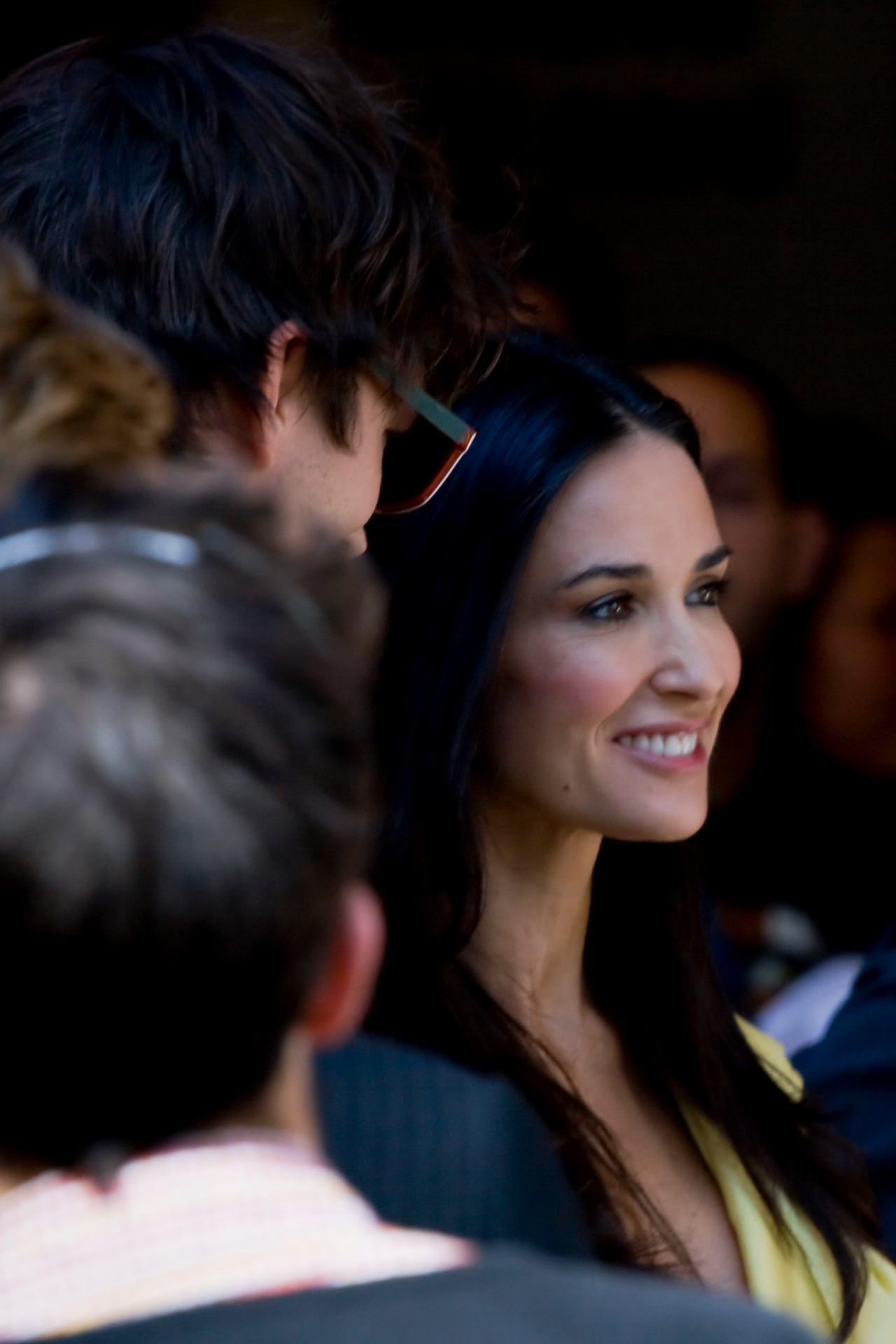 At the premiere of "The Joneses", during the Toronto International Film Festival, 2009.